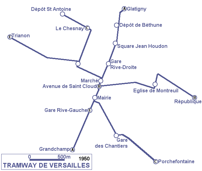 Map of the Tramway de Versailles in 1950, Versailles.